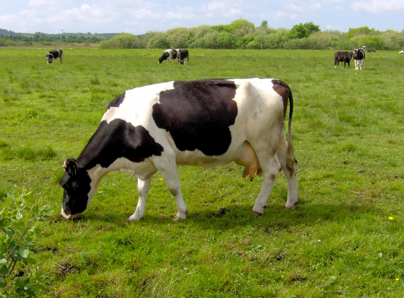 The cow, Puck county, Pomorskie voivodeship, Poland, summer of 2006